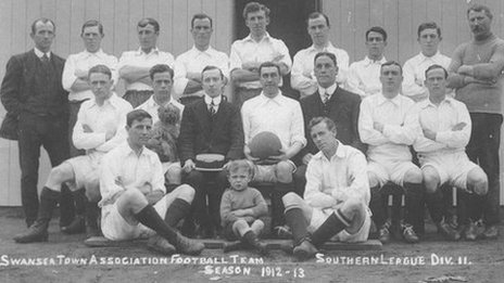 Swansea Town AFC 1912-13 Squad Photo Back Row, left to right: AT Jones, A Cleverley, A Sutherland, J Duffy, J Nicholas, J Coleman, W Messer, S Jepp, B Crane (trainer). Middle Row, left to right: H Davidson, B Ball, JW Thorpe (Chairman), J Hamilton (Captain), W Whittaker (Player Manager), R Grierson, J Swarbrick. Front Row, left to right: Palmer, Jack Nicholas Junior, Soady.